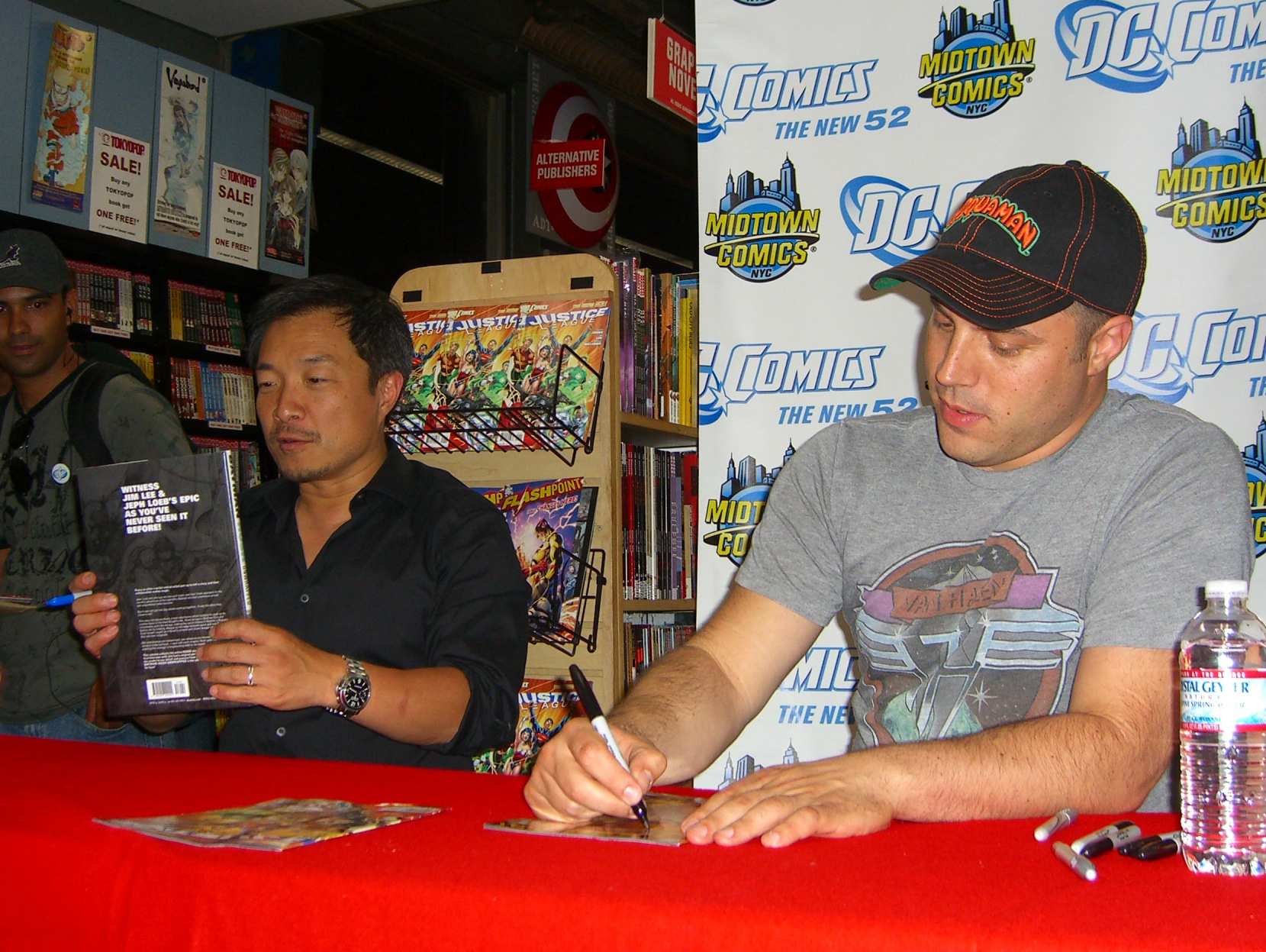 Comic book creators and publishers Jim Lee (left) and Geoff Johns (right) at the August 31, 2011 midnight signing of Flashpoint #5 and Justice League #1. The two titles were part of "The New 52", the 2011 company-wide relaunch by DC Comics of its entire superhero comic book line. Photographed by Luigi Novi. This photo is not in the public domain. It may, however, be used, modified and published for any purpose, free of charge, only if the photographer is properly credited, either by linking the photograph to this page, or with an easily visible credit to the photographer placed near the photo in each instance in which it is used. (See licensing information below.) Publication of this photo without this proper attribution constitutes copyright infringement. If you have any questions, you can contact me on my Wikipedia Talk Page.